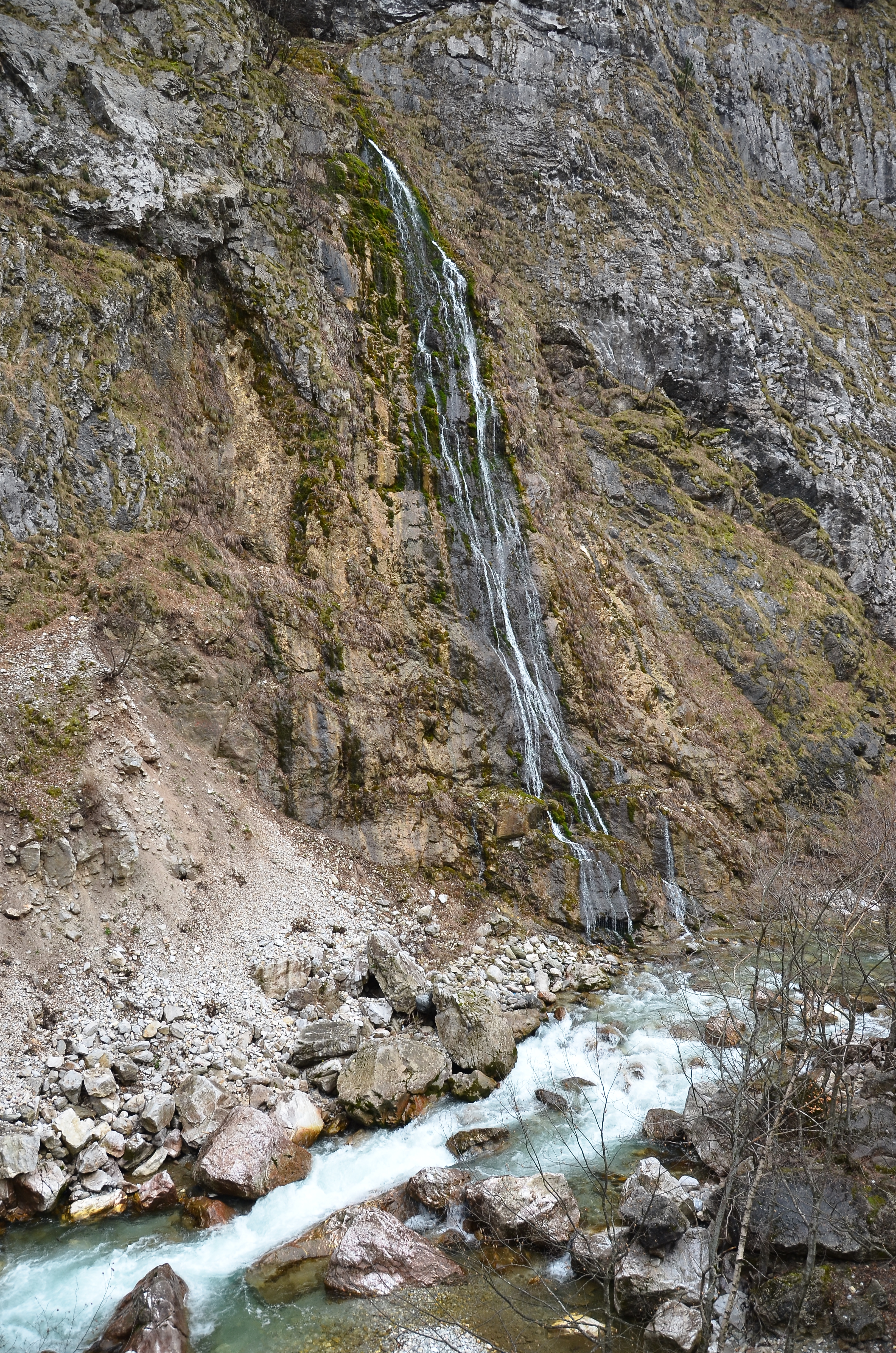 A waterfall in the mountains of Rugova,Peje